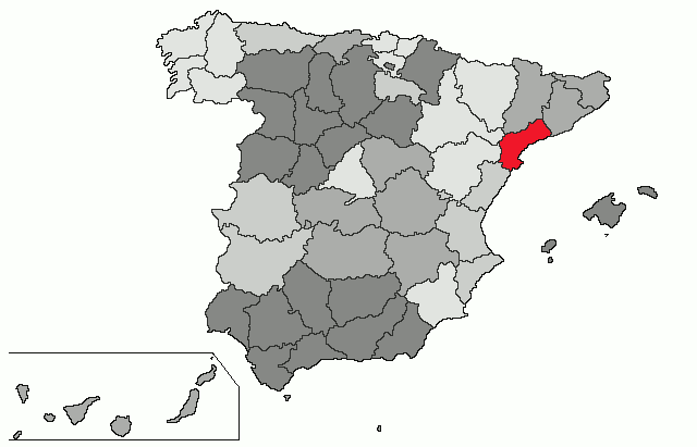 Province of Tarragona Based in: Image:ProvPont.jpg